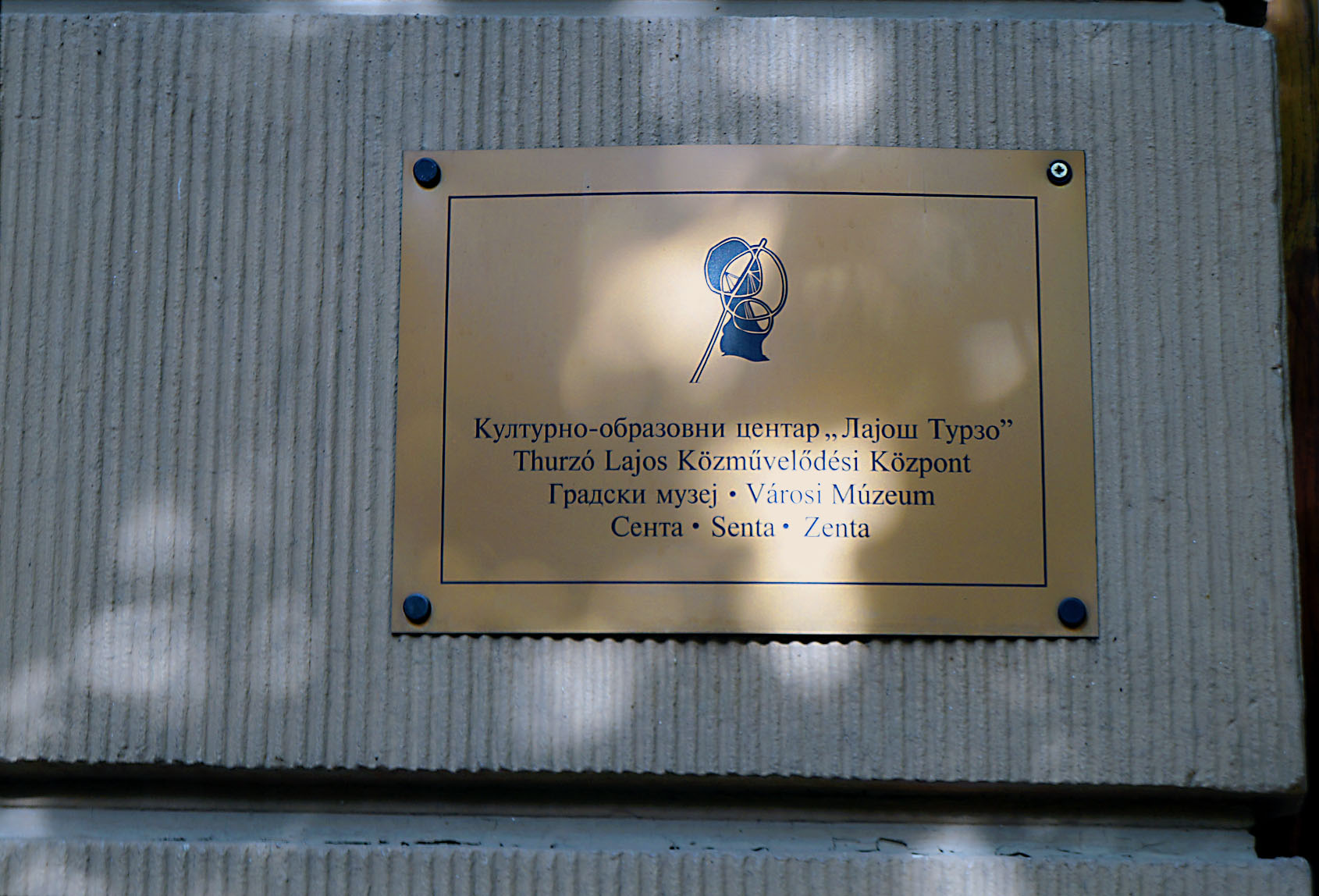 Senta municipal museum's plate